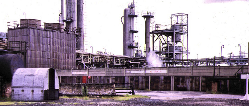 Southall Gas Works, 1973. Plant at Southall before completion of the changeover to North Sea Gas